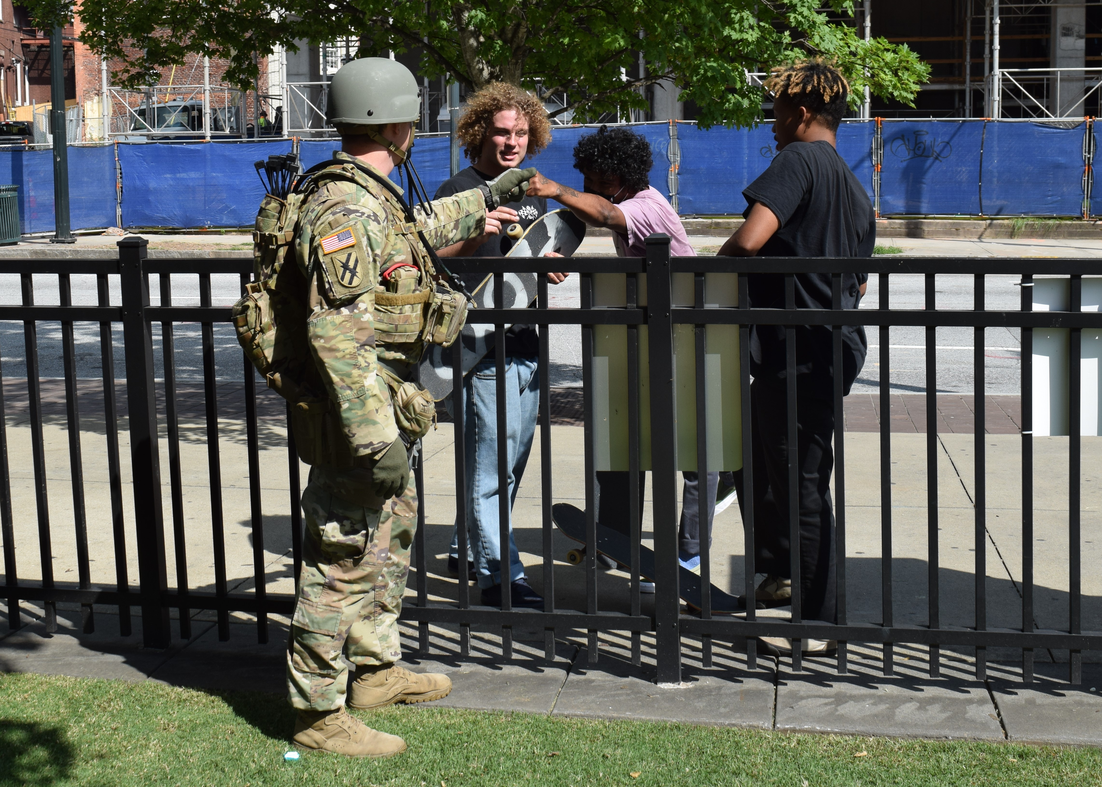 A Georgia National Guard Soldier interacts with citizens during a peaceful protest in Atlanta June 2, 2020. (National Guard photo by Maj. William Carraway)